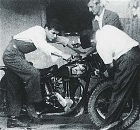 Ernesto Guevara (left) holding the handlebars of his 500cc single cylinder Norton motorcycle which he used at the start of his 1952 Motorcycle Diaries journey through South America.